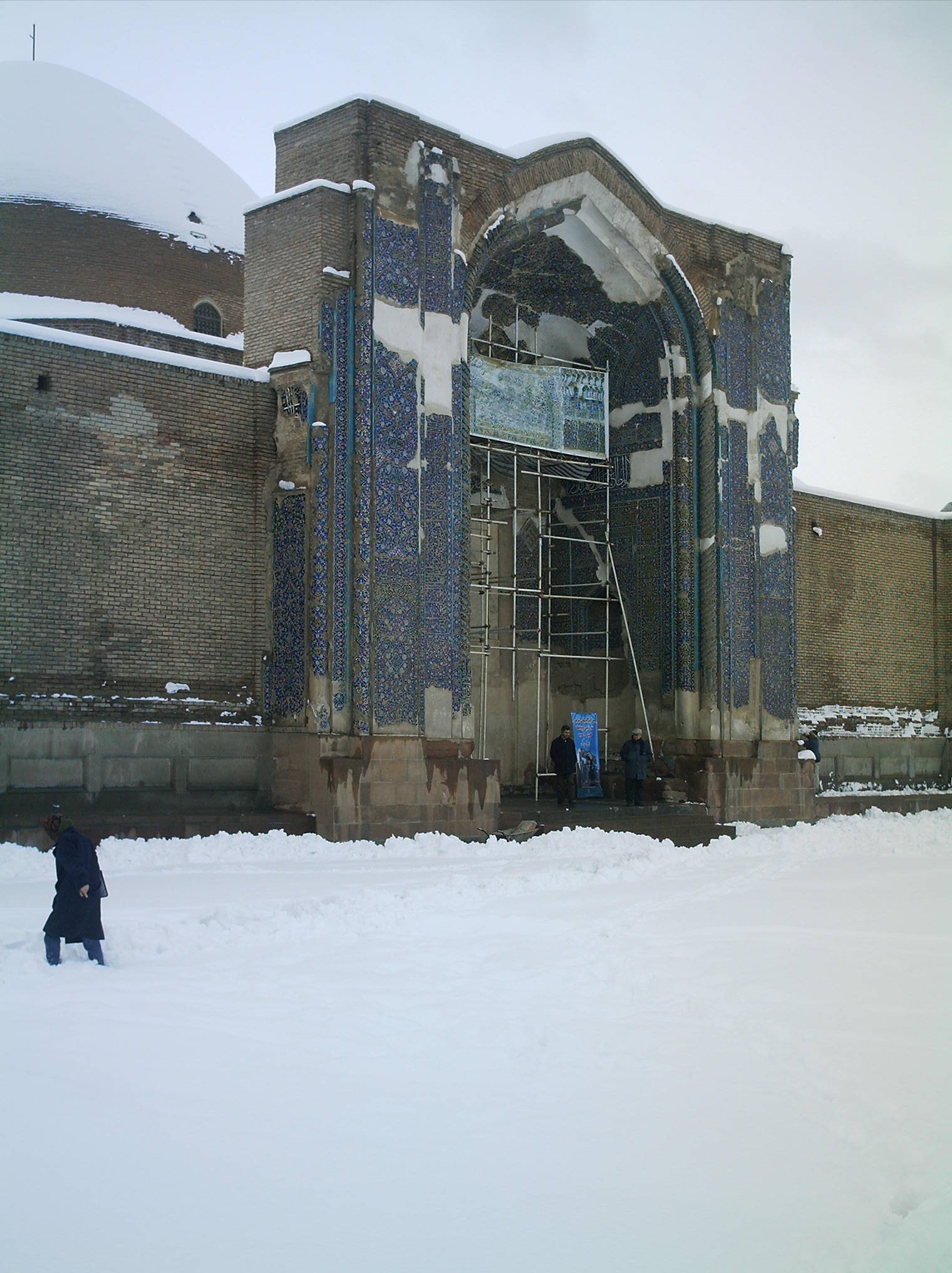 Blue Mosque, Tabriz, End of Winter.